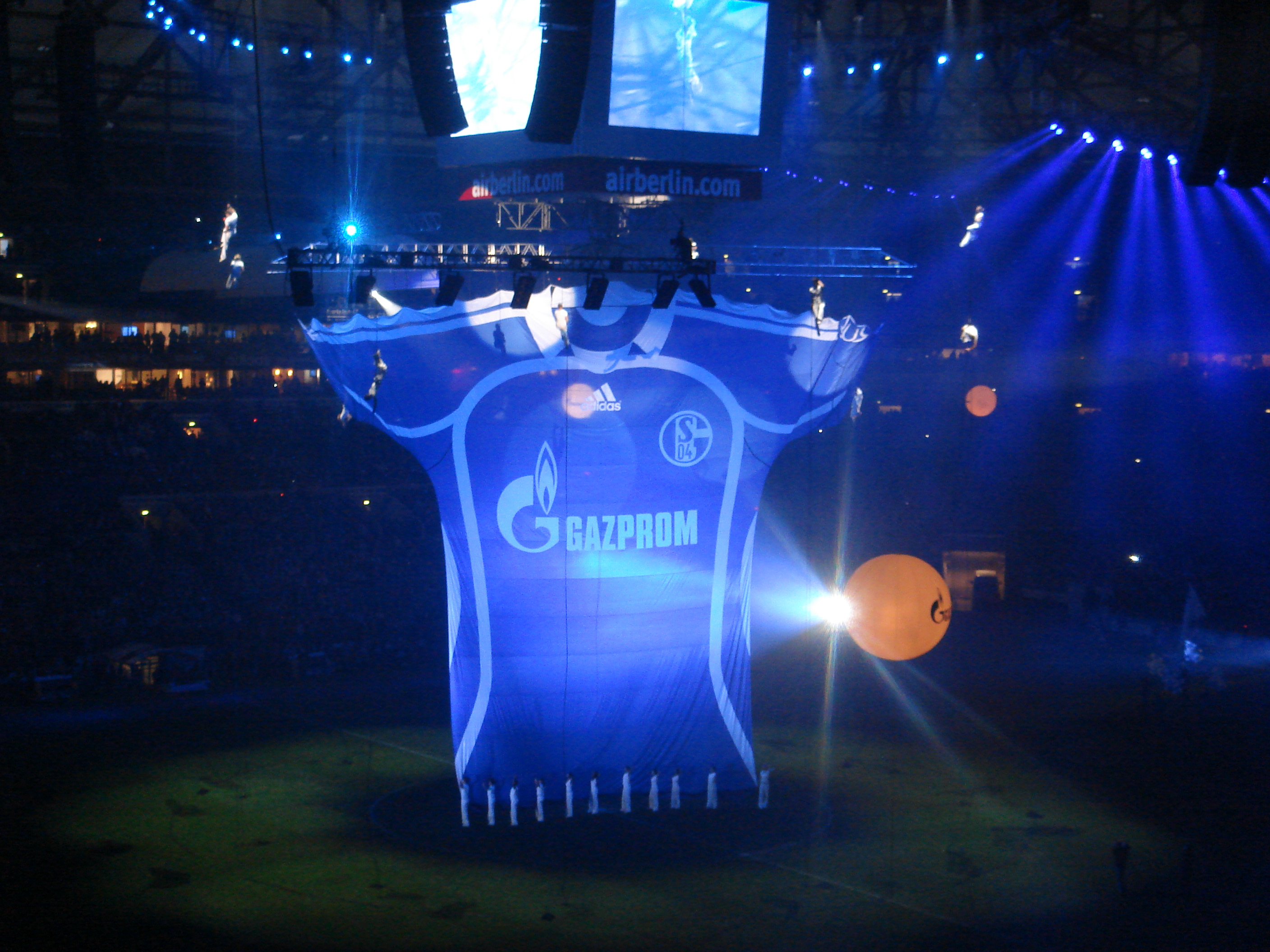 The VeltinsArena in Gelsenkirchen at the friendly FC Schalke 04 versus Zenit St. Petersburg (Presentation of new sponsor Gazprom)